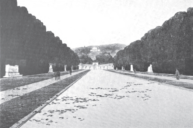 Proposed 1929 final design for Memorial Drive and the Hemicycle, part of the George Washington Memorial Parkway in Virginia in the United States. The drive and structure are often thought to be part of Arlington National Cemetery, but they are not. Both structures were designed by the architectural firm of McKim, Mead & White, built in 1931, and dedicated on January 16, 1932. Memorial Drive connects Arlington Memorial Bridge to the Hemicycle, and the Hemicycle was intended to be a ceremonial gateway to the cemetery. The Hemicycle was largely completed, although none of the inscriptions or memorials intended for it placed there. The Hemicycle was transformed into the Women in Military Service for America Memorial in 1997.